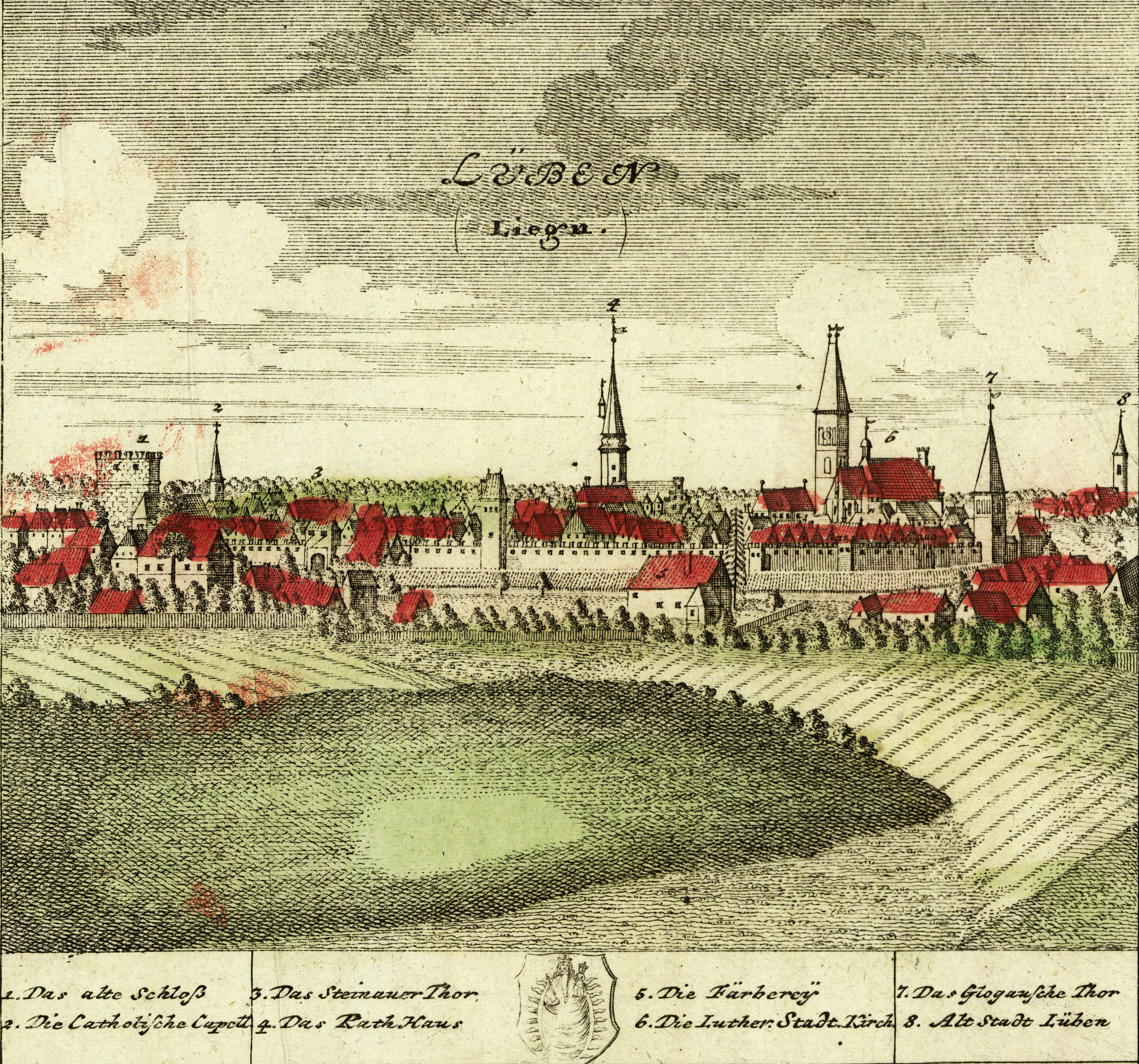 Lubin is a town in Lower Silesian Voivodeship in south-western Poland.